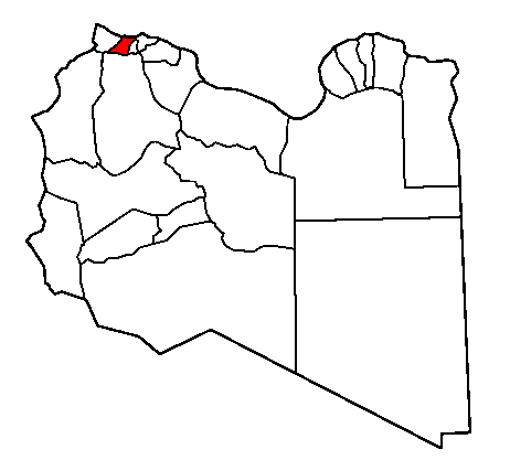 Map of Libya with Az Zawiyah District highlighted